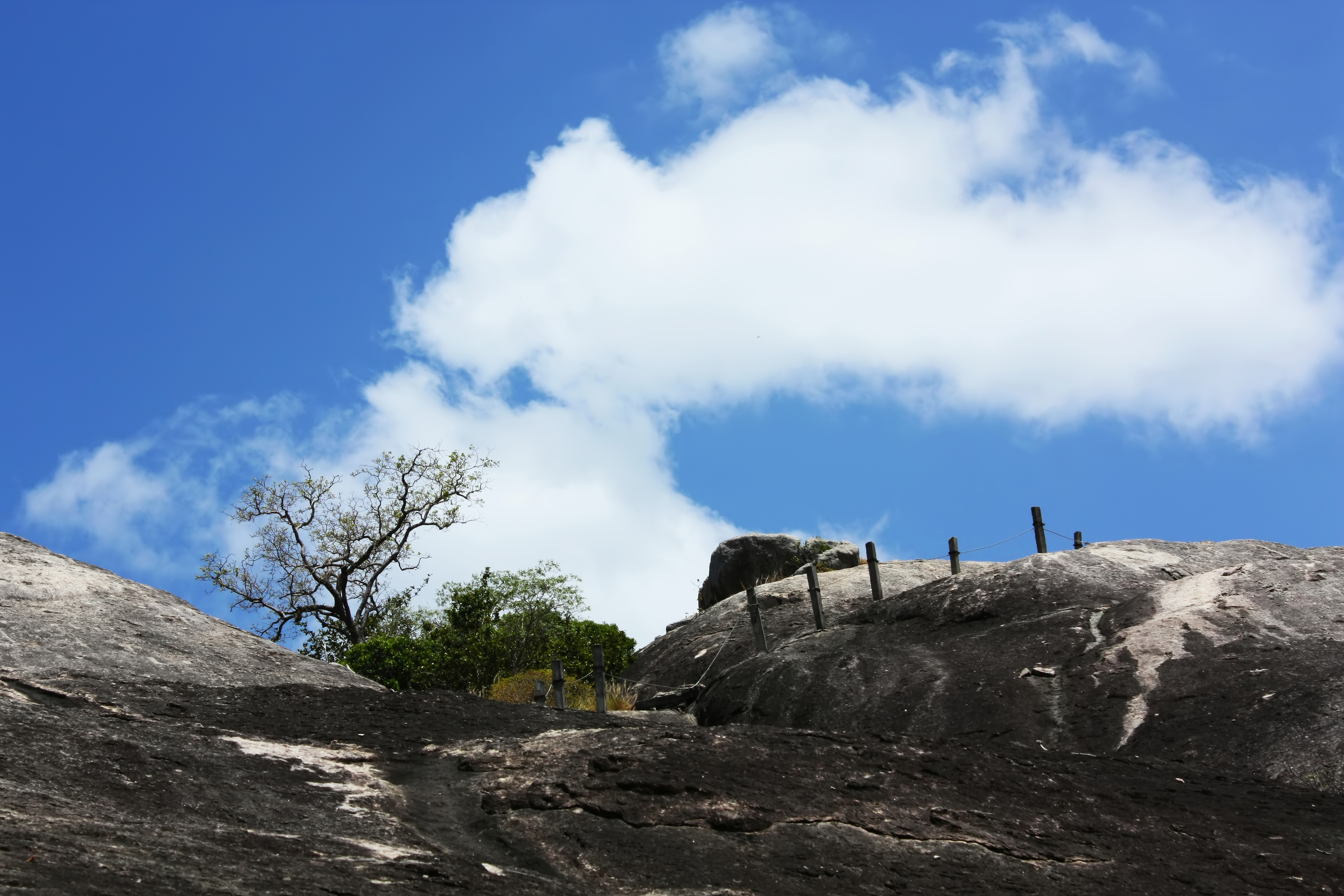 A rock in Kudumbigala Sanctuary (Kumana National Park, Yala east). It is a highest rock at Kudumbigala Monastery Complex.